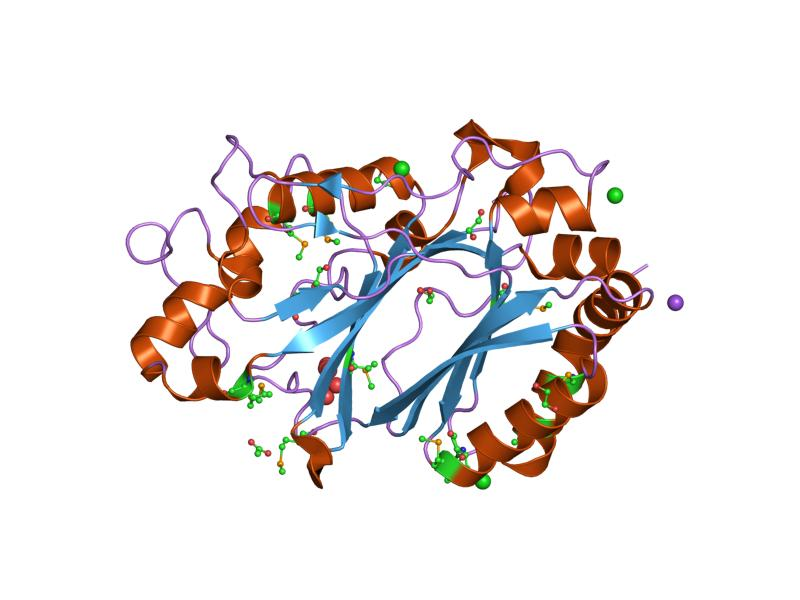 Cartoon representation of the molecular structure of protein registered with 2gvk code.